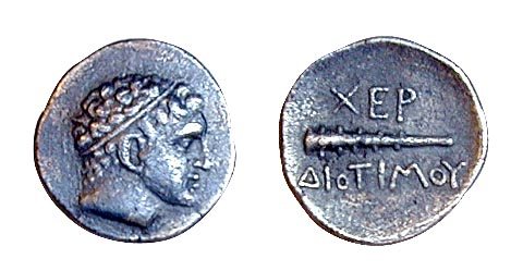 A Greek Coin from Cherronesos in Crimea depicting a profile of Diotimus (Diotimos) wearing the royal diadem . r., in exergue, ΧΕΡ ΔΙΟΤΙΜΟΥ .